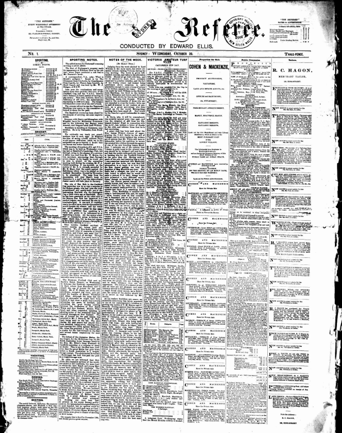 Front page of the Referee on 20 October 1886